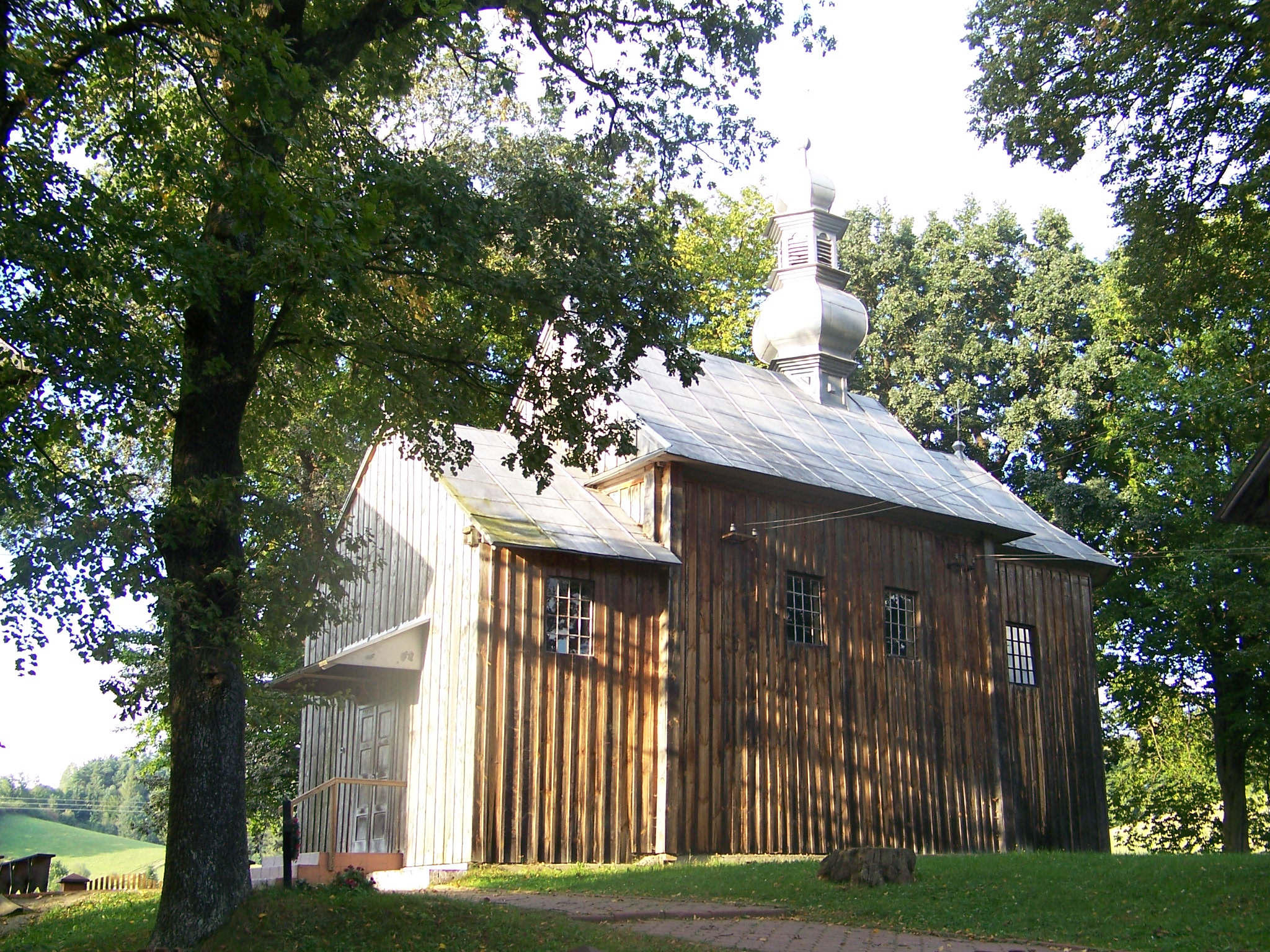 Ex-orthodox church in Orelec, Poland.